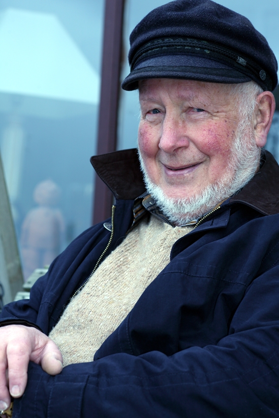 Julian Tudor Hart (London, 1927 – 2018) general practitioner and scientific writer